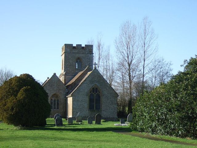 Holnest church This church is in the middle of fields with no habitation nearby these days.